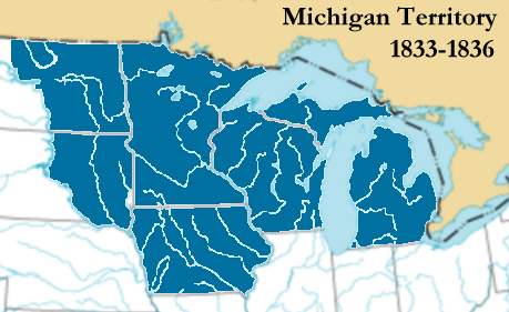 Map of Michigan Territory from 1833 until 1836; created October 2004 by Jengod. Based on a public domain U.S. government map.